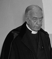 The Rt. Rev. James E. Freeman, Bishop of Washington, paying tribute to George Washington at his tomb at Mount Vernon on 17 September 1937, the 150th Anniversary of the signing of the United States Constitution